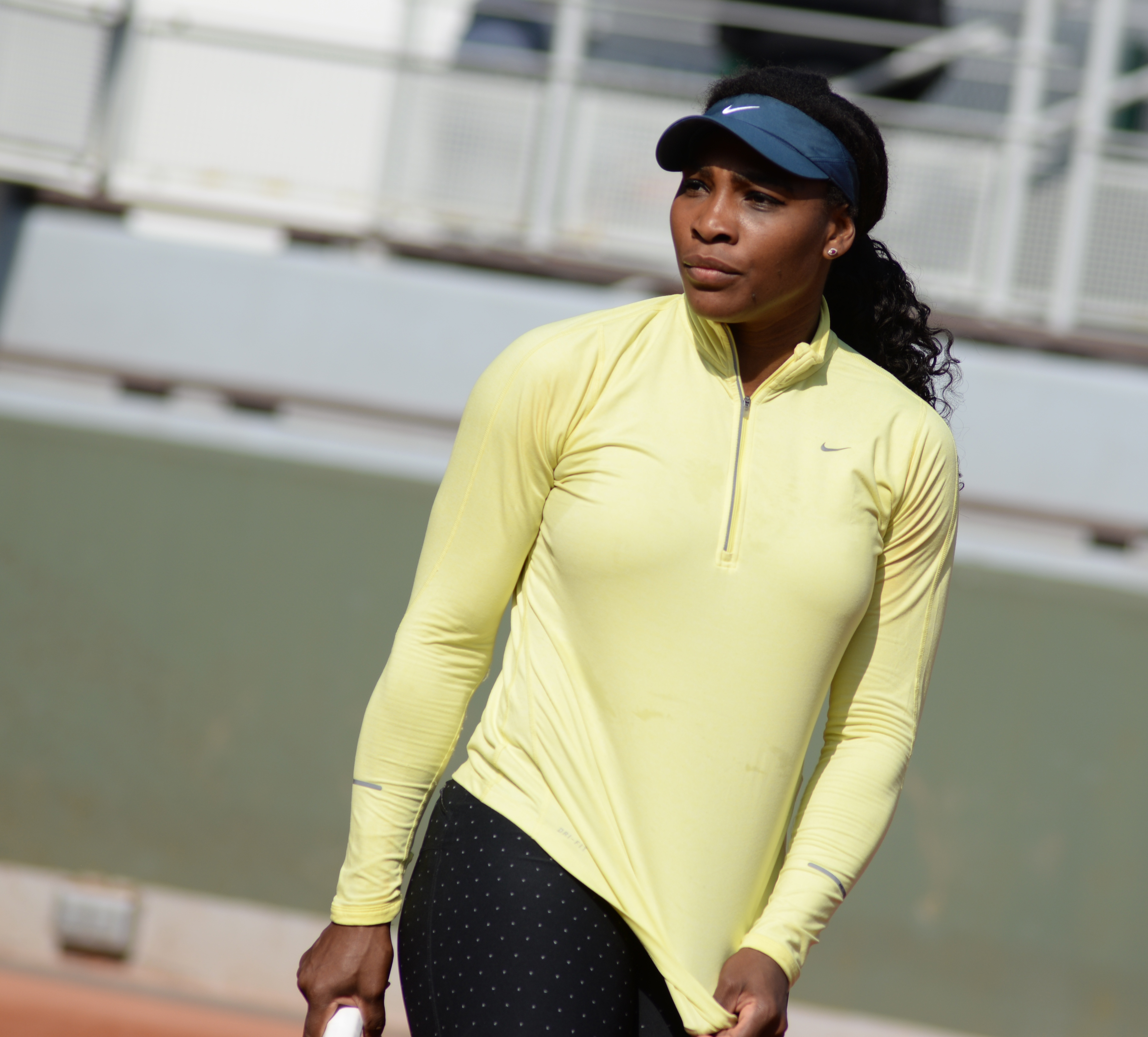 Serena Williams